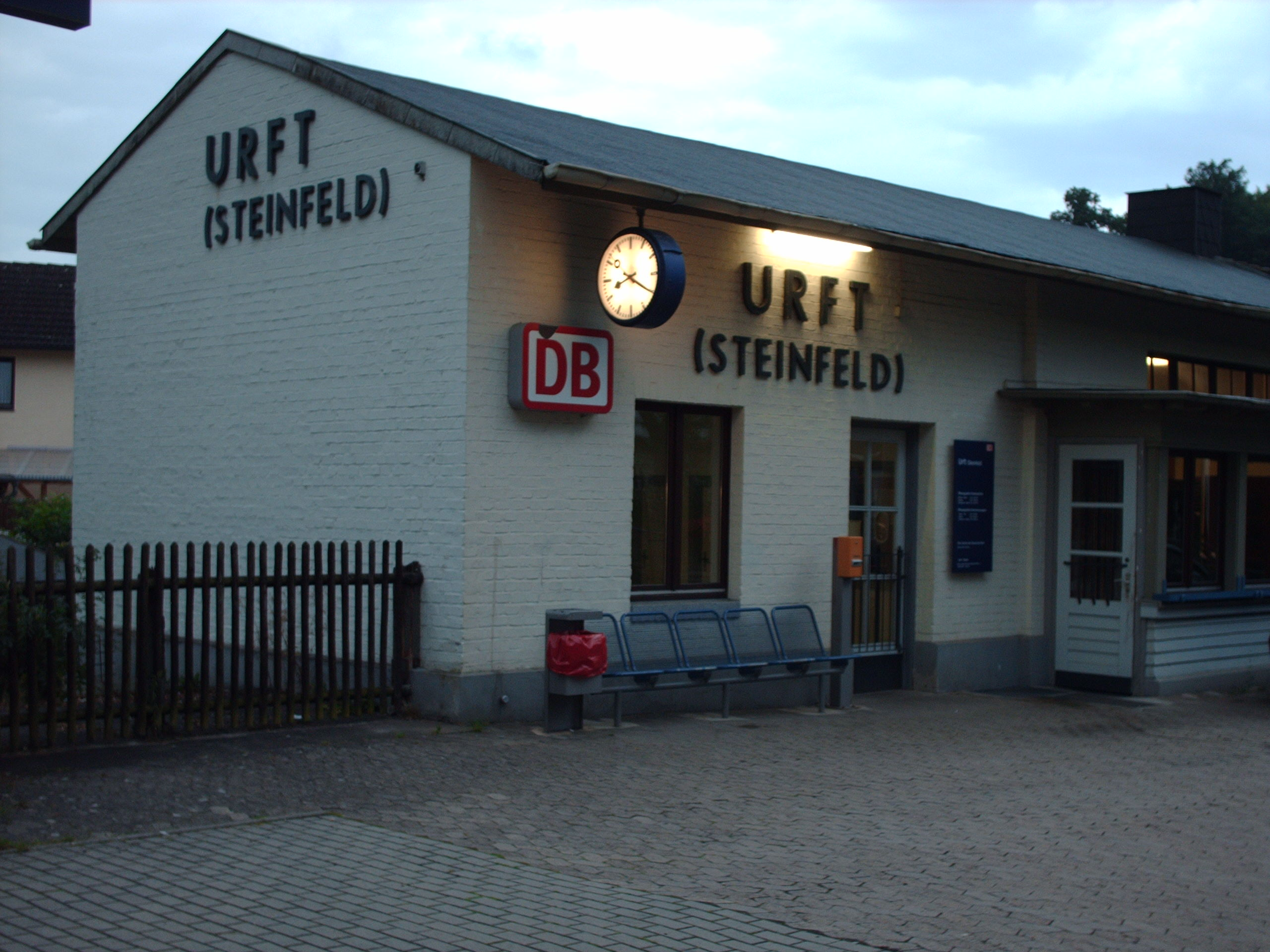 Urft (Steinfeld) station, Kall, Germany check usage